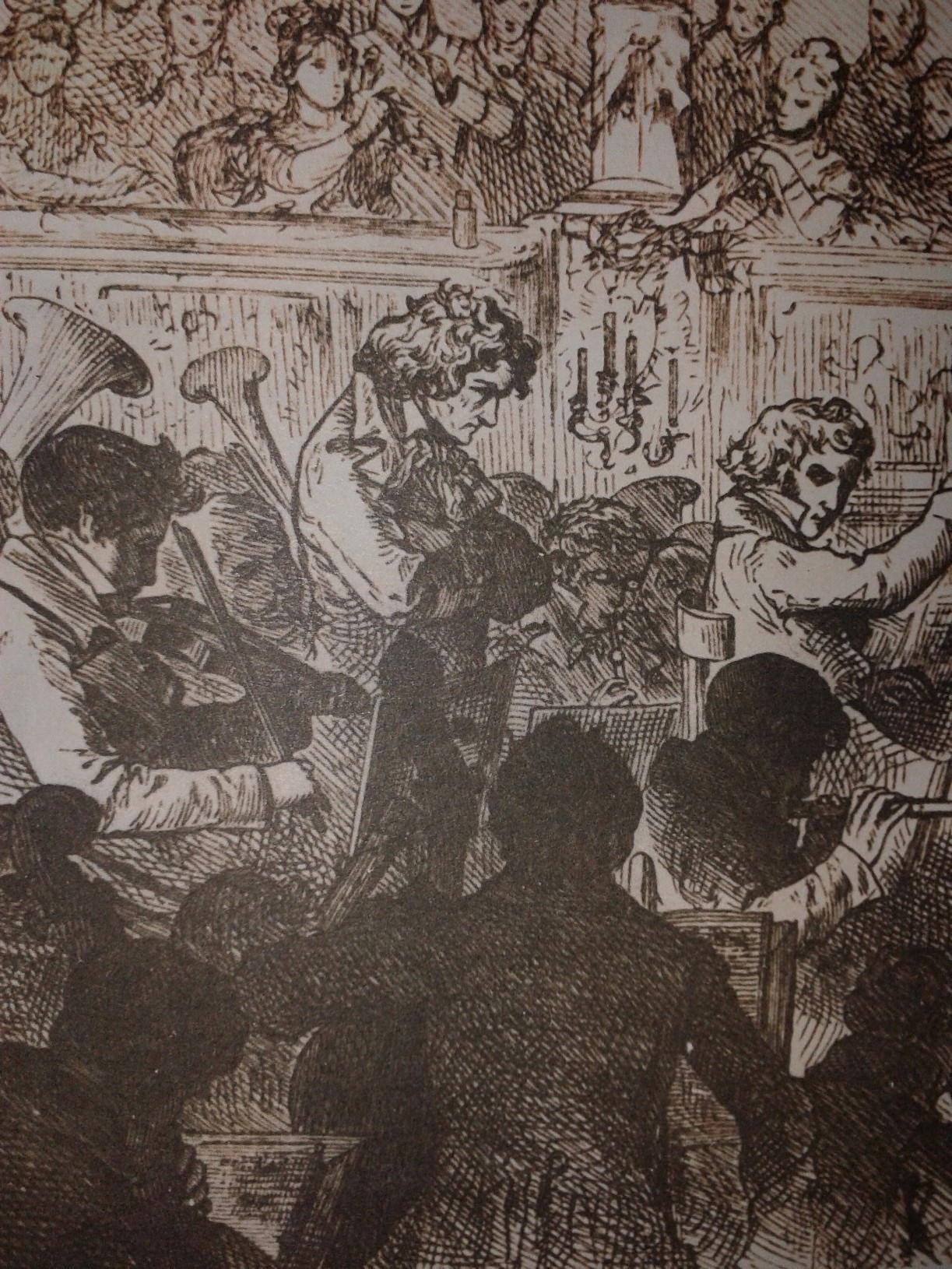 A 19th Century print depicting the first Performance of Beethoven's 9th symphony with Beethoven drawn in the middle of his orchestra